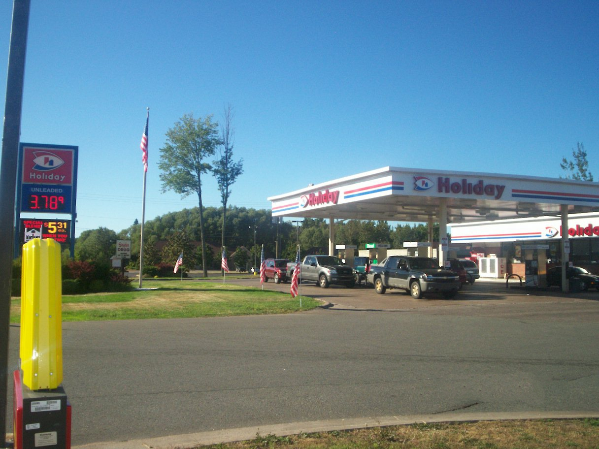 Holiday Stationstore gas station in Harvey, Michigan.